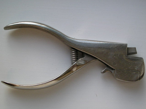 Notching punch for McBee edge-notched cards.